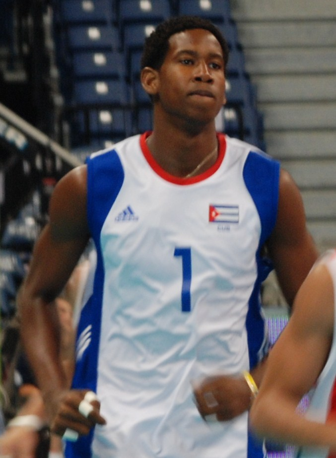 Cuban volleyball player Wilfredo Leon Venero